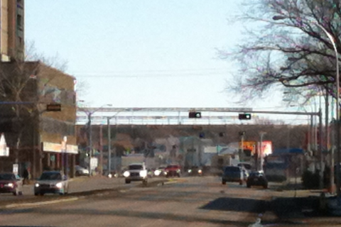 111 Ave, overlooking the Commonwealth Stadium.